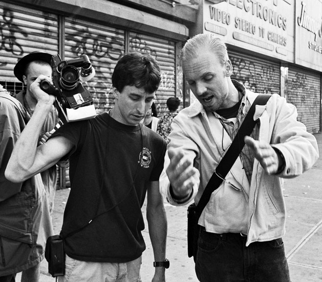 Cinematographer Howard Krupa with director Matthew Harrison on Delancey Street in New York's Lower East Side during the filming of the feature film RHYTHM THIEF.